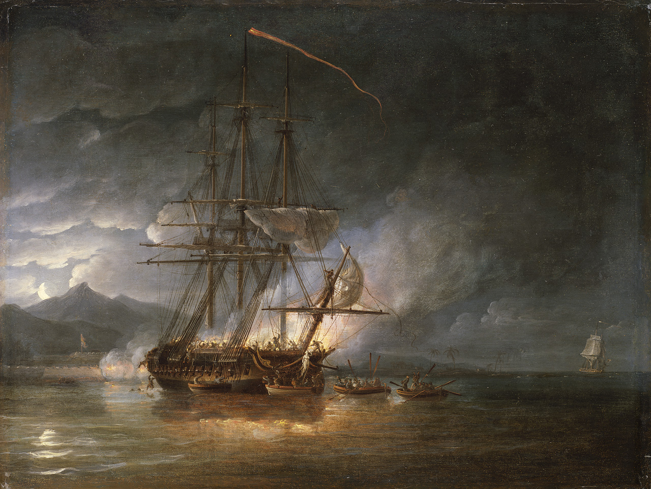 HMS Hermione being cut out of Puerto Cabello by boats from HMS Surprise